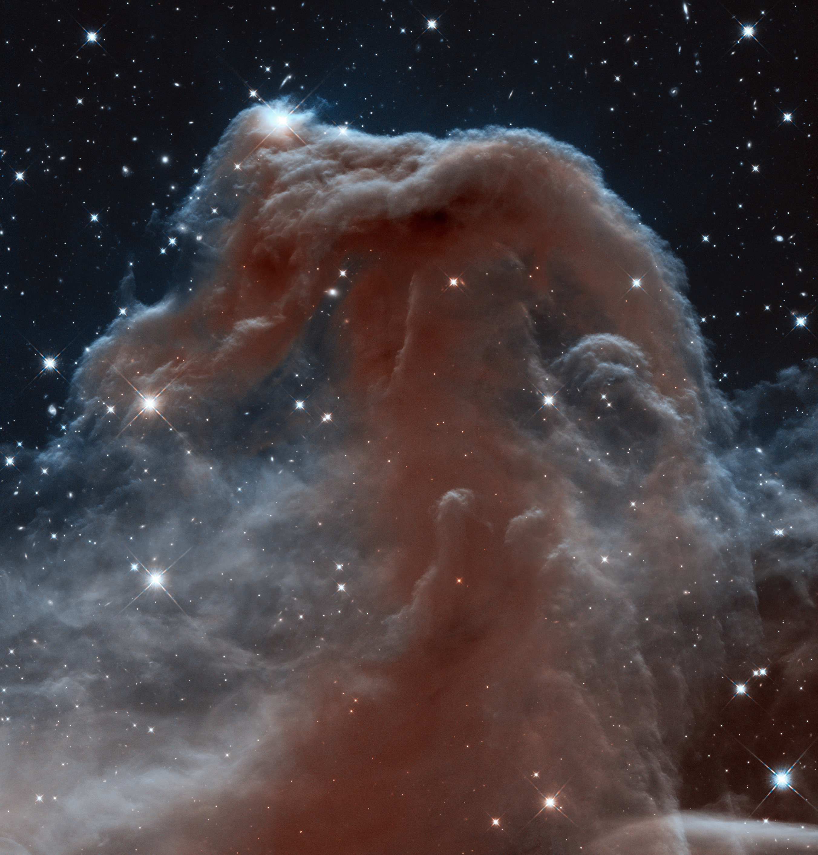 Astronomers have used NASA's Hubble Space Telescope to photograph the iconic Horsehead Nebula in a new, infrared light to mark the 23rd anniversary of the famous observatory's launch aboard the space shuttle Discovery on April 24, 1990. Looking like an apparition rising from whitecaps of interstellar foam, the iconic Horsehead Nebula has graced astronomy books ever since its discovery more than a century ago. The nebula is a favorite target for amateur and professional astronomers. It is shadowy in optical light. It appears transparent and ethereal when seen at infrared wavelengths. The rich tapestry of the Horsehead Nebula pops out against the backdrop of Milky Way stars and distant galaxies that easily are visible in infrared light. Hubble has been producing ground-breaking science for two decades. During that time, it has benefited from a slew of upgrades from space shuttle missions, including the 2009 addition of a new imaging workhorse, the high-resolution Wide Field Camera 3 that took the new portrait of the Horsehead.